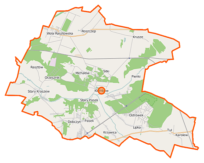 Map of Gmina Klembów, Poland This map of Klembów (gmina) was created from OpenStreetMap project data, collected by the community. This map may be incomplete, and may contain errors. Don't rely solely on it for navigation. Border coordinates52.464421.2211←↕→21.436452.3599